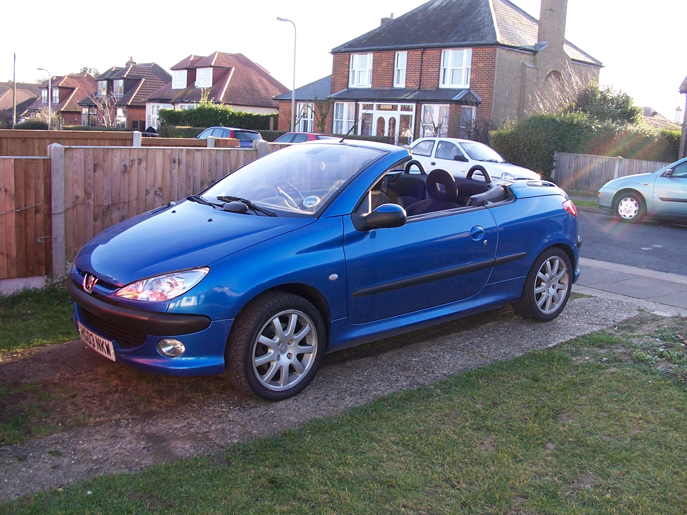 Introduced in 2001, the 206 CC cabriolet featured a powered fold-away roof based on the Georges Paulin system first seen on the 1935 Peugeot 402 Eclipse coupe.